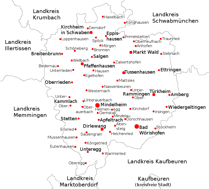 the former district of Mindelheim with all municipalities – map